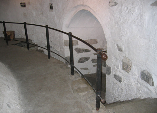 Munkholmen in Trondheim. This is the prison cell of Griffenfeldt